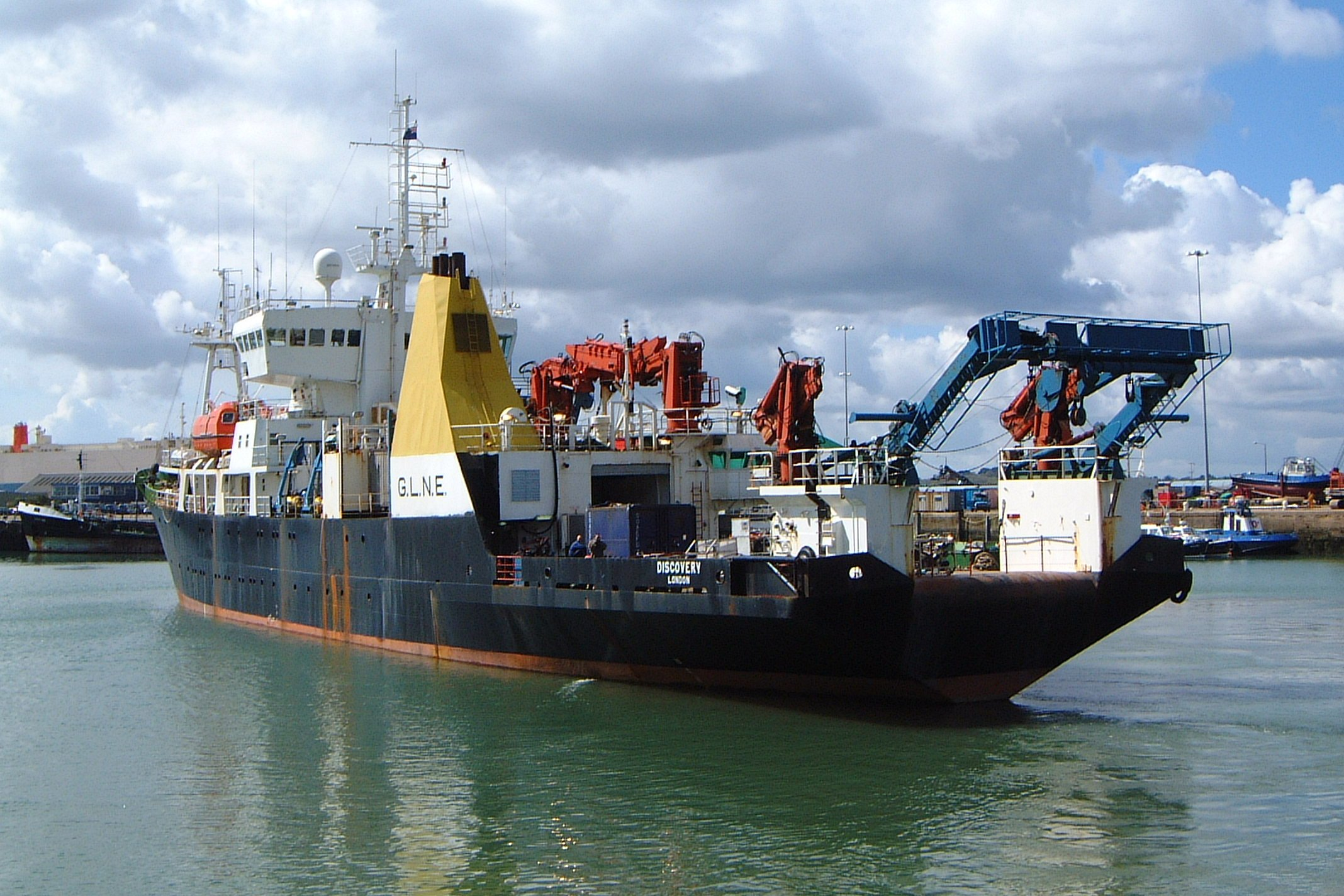 The RRS Discovery leaving port at the National Oceanography Centre, Southampton (then the Southampton Oceanography Centre). RRS Discovery is departing to take part in the NERC Marine Productivity programme. This was cruise number D262, and a cruise report is available here.